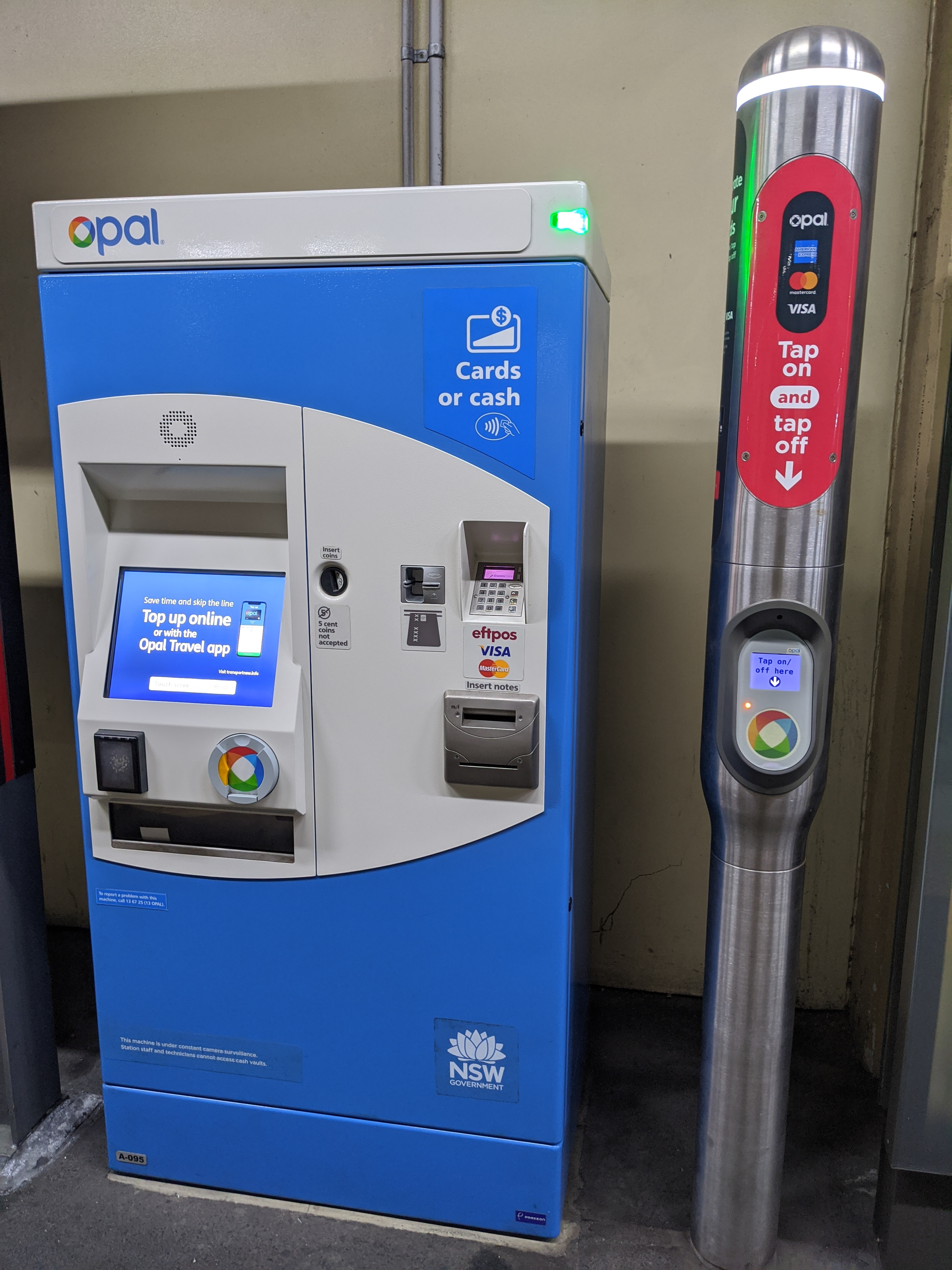 Sydney L1 Light Rail Opal Card machine and reader at Pyrmont Bay stop